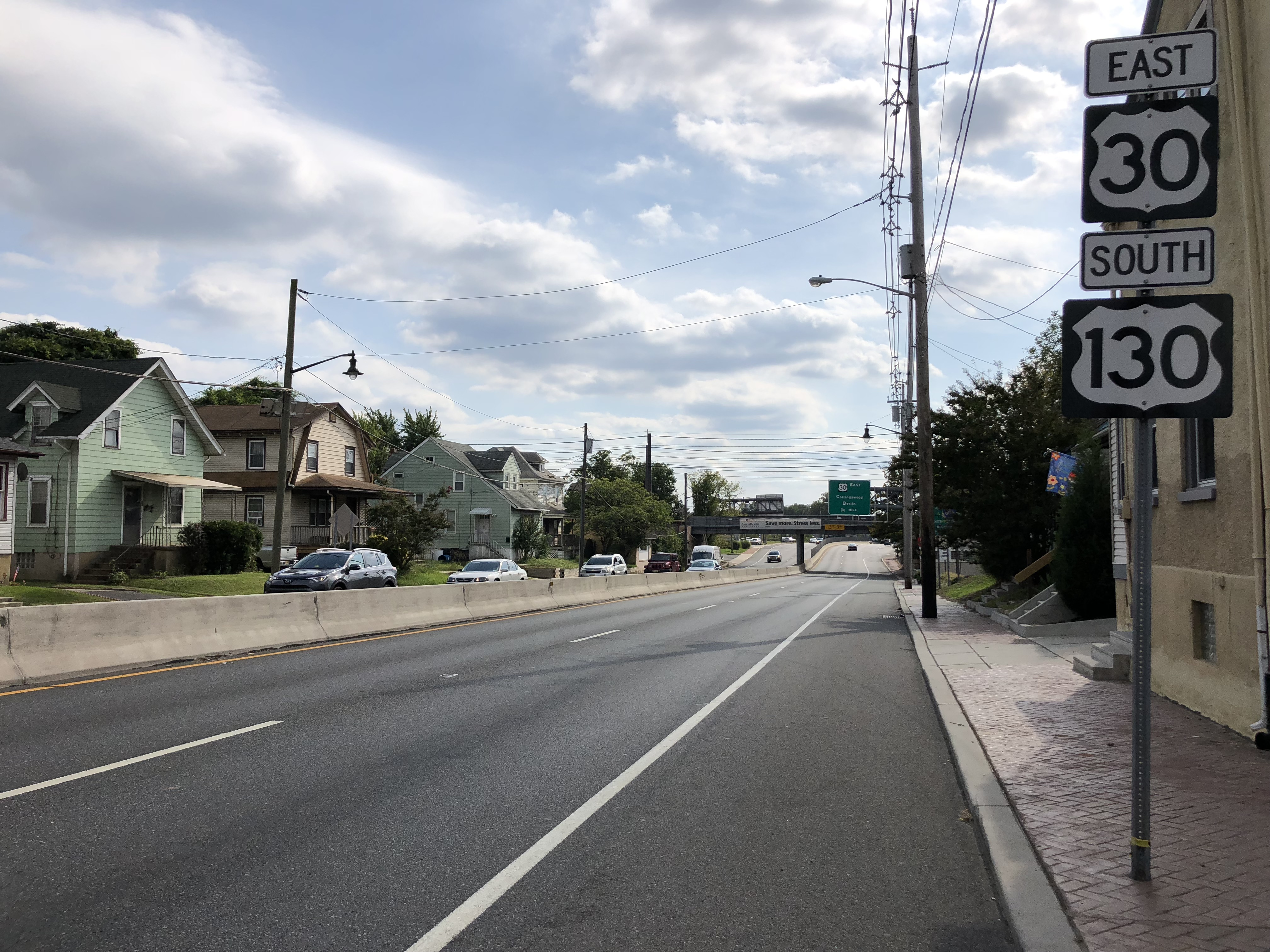 View east along U.S. Route 30 and south along U.S. Route 130 (Crescent Boulevard) just south of Camden County Route 561 (Haddon Avenue) in Collingswood, Camden County, New Jersey